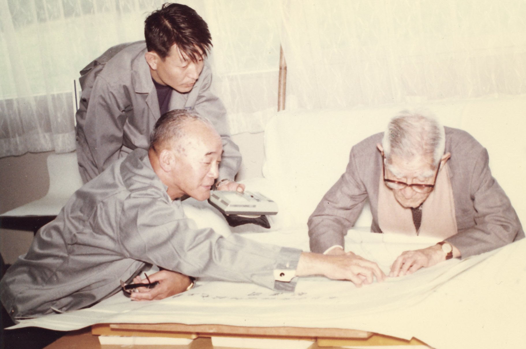 Matsunaga Yasuzaemon (migi) to tomoni